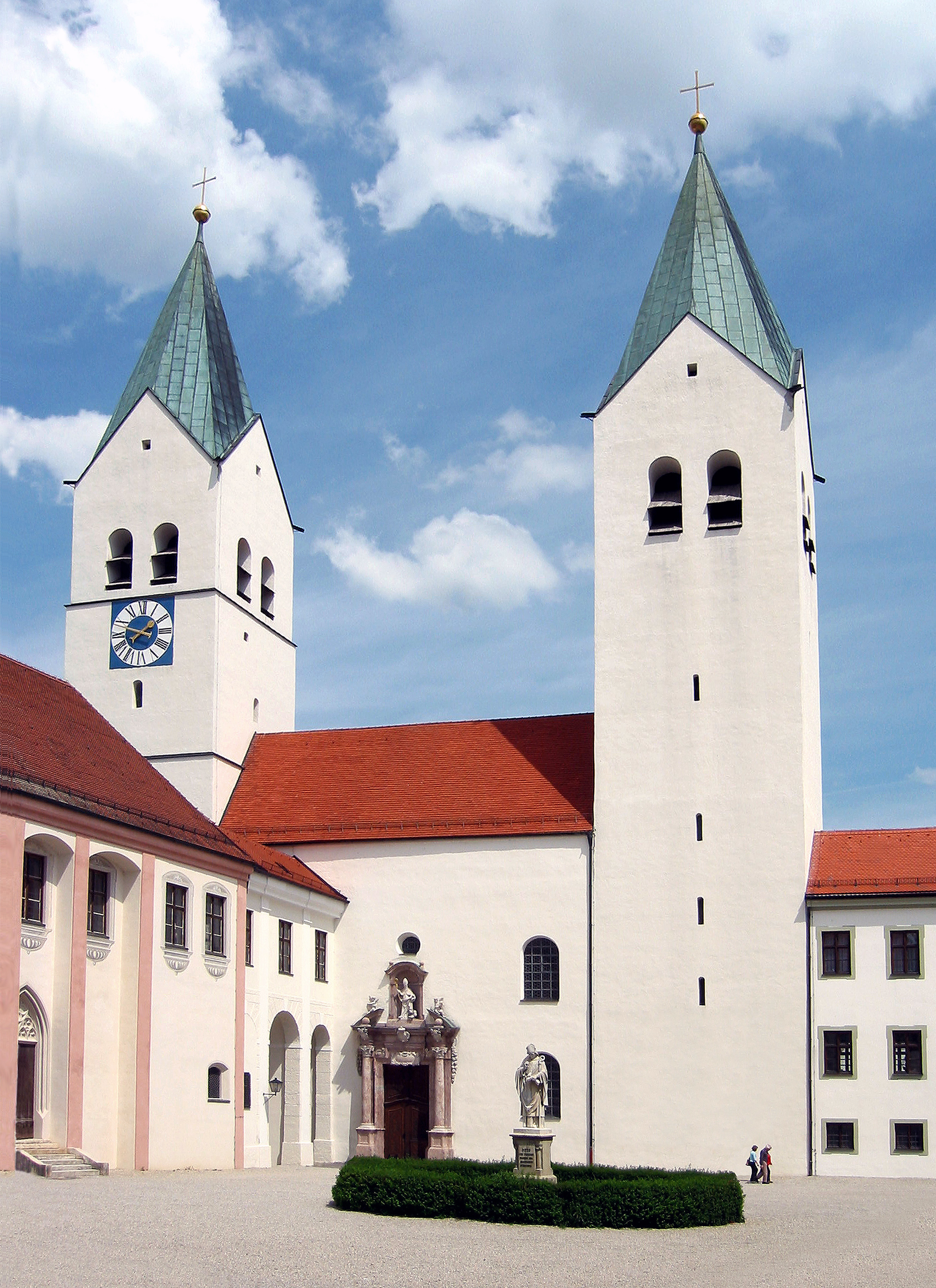 Church of episcopy in Freising, Bavaria (Germany)